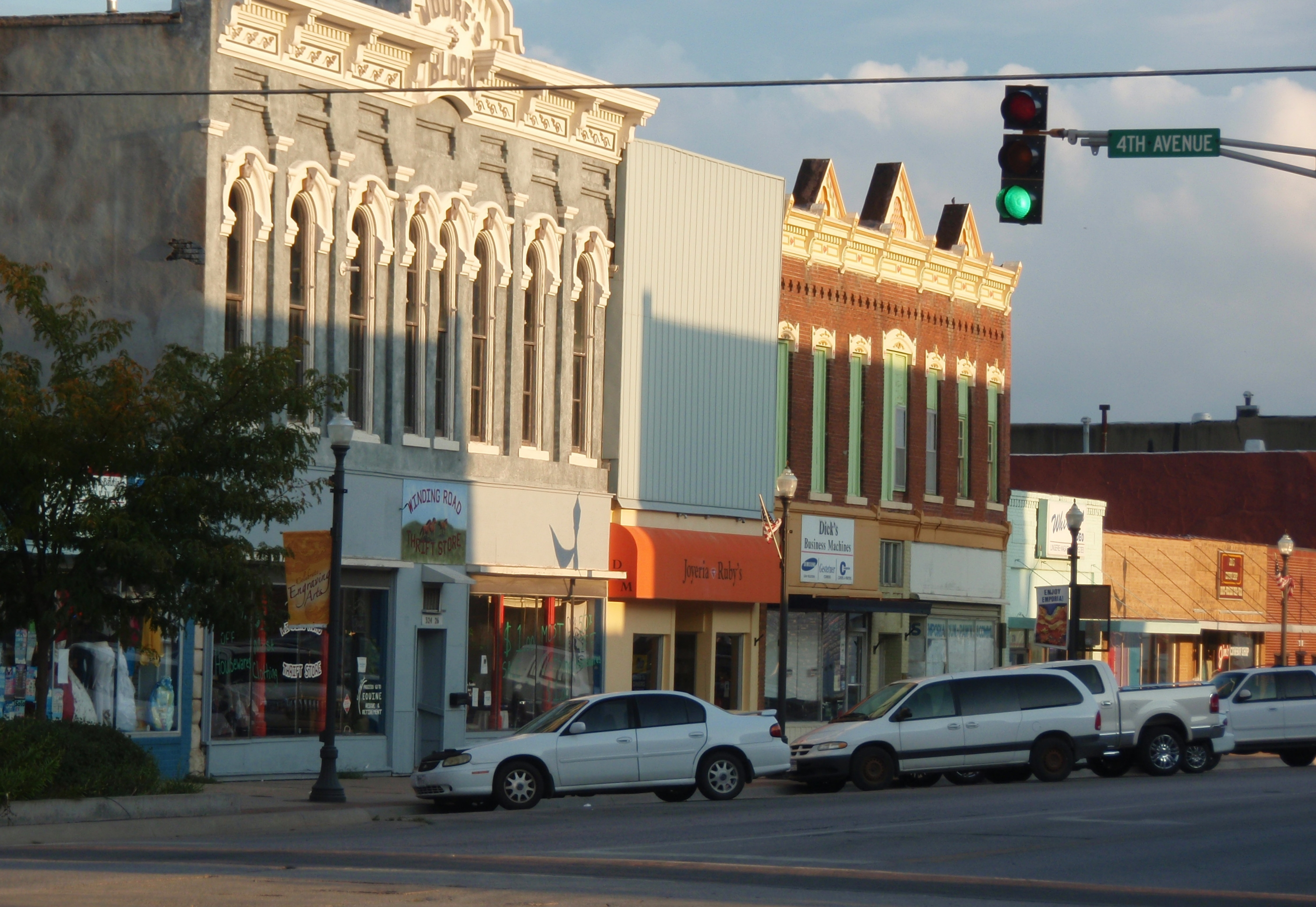 Business district of Emporia, Kansas